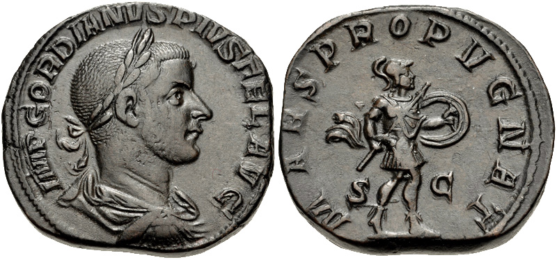 Gordian III. AD 238-244. Æ Sestertius (29mm, 22.08 g, 11h). Rome mint, 6th officina. 13th emission, January-February AD 244. IMP GORDIANVS PIVS FEL AVG, laureate, draped, and cuirassed bust right, seen from behind MARS PROPVGNAT, Mars advancing right, holding shield and transverse spear; S-C across field. RIC IV 332; Banti 52.